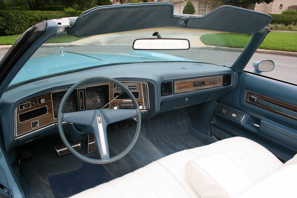 '75 Pontiac Grand Ville interior.jpg